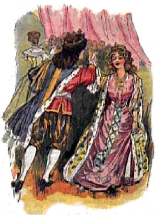 Prince Charming meets Cinderella in a 1912 book of fairy tales. Cleaned up by User:Ihcoyc.